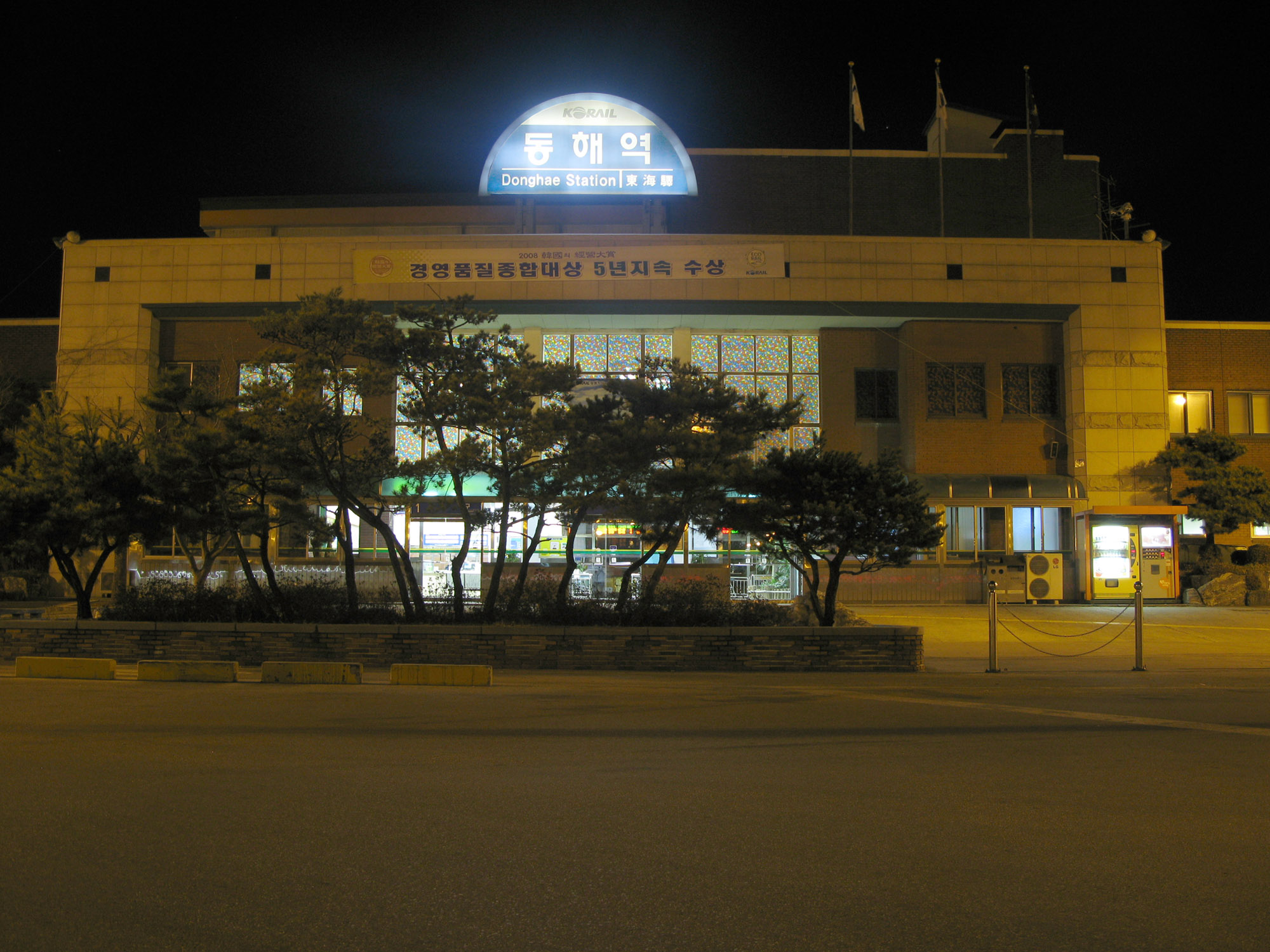 Yeongdong, Samcheok, Mukhohang, Bukpyeong Line Donghae Station